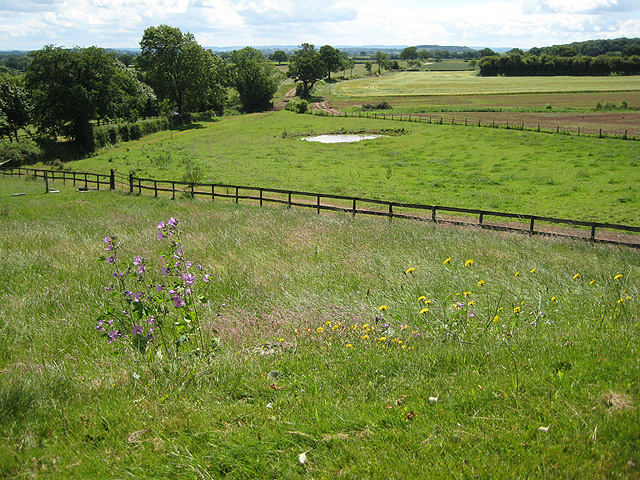 View from a country churchyard This part of the churchyard of St John the Evangelist's, Pauntley, is elevated, giving wonderful views all around. The trees on the right form one edge of Collinpark Wood.